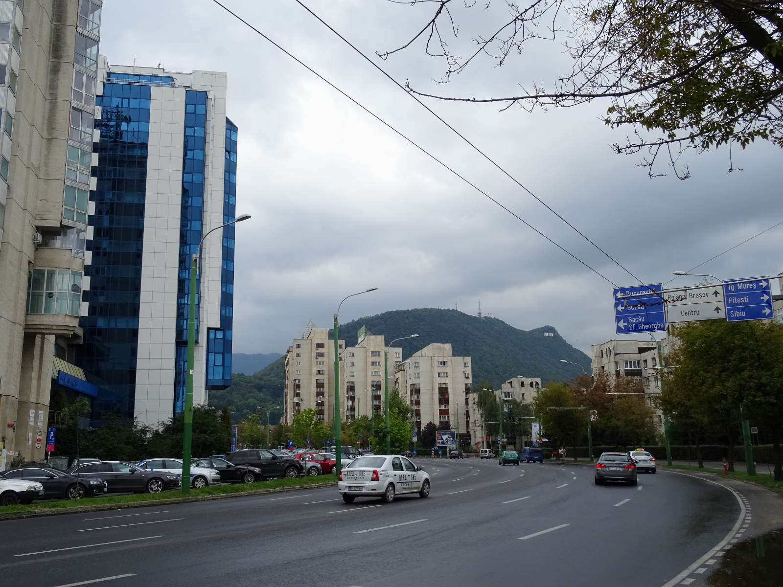 Centrul Civic district of Brasov